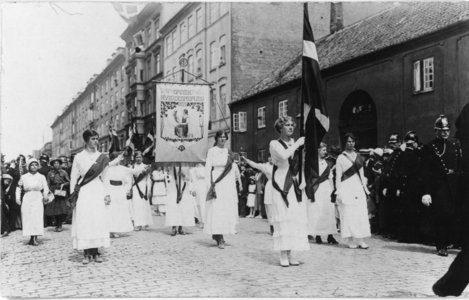 Danish suffragist procession in Copenhagen 5 June 1915